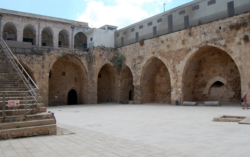 courtyard